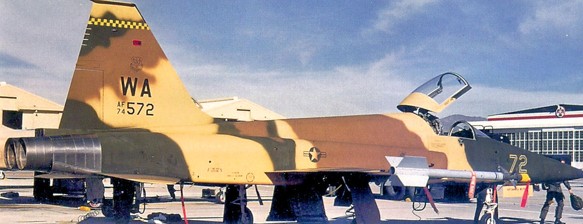 F-5E 74-1572 Fighter Weapons School Nellis AFB